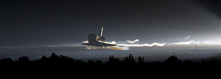 Landing of STS-135, the final Space Shuttle mission